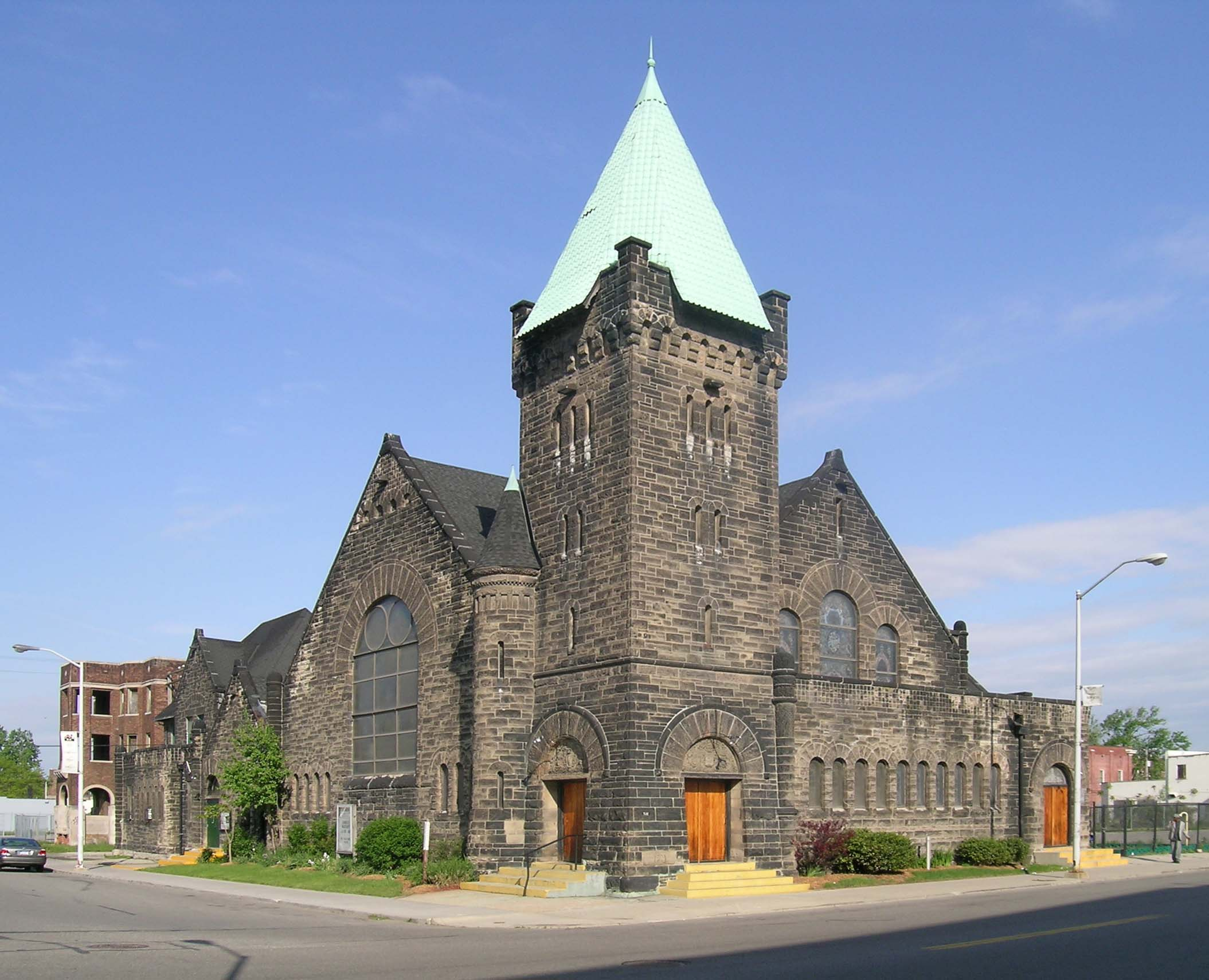 The Cass Avenue Methodist Episcopal Church at 3910 Cass Avenue in Detroit, Michigan, United States, is listed on the US National Register of Historic Places (NRHP). It remains an active church under the name Cass Community United Methodist Church.NRHP reference number 82000548